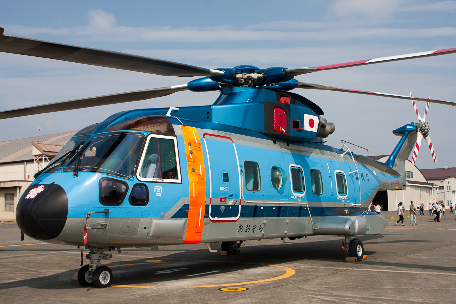 Aircraft: AgustaWestland EH101-510 JA01MP(cn: 50014/CIV02) Squadron: Tokyo Metropolitan Police Department(警視庁航空隊) Base: Tokyo Heliport(RJTI) Tokyo, Japan 19/09/2010 JGSDF Camp Tachikawa(RJTC) Tokyo, Japan